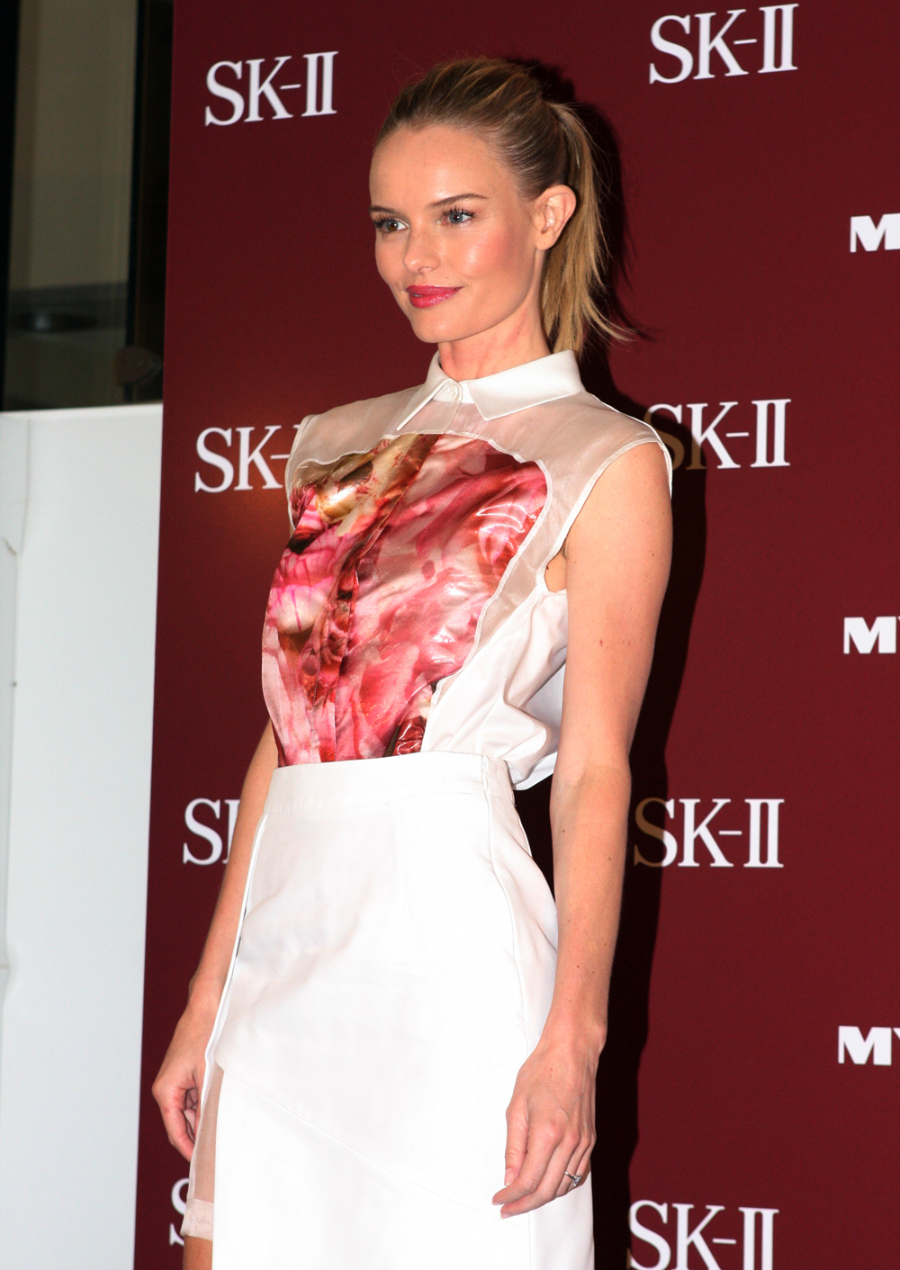 Kate Bosworth: Exclusive appearance at MYER Sydney City 2012.